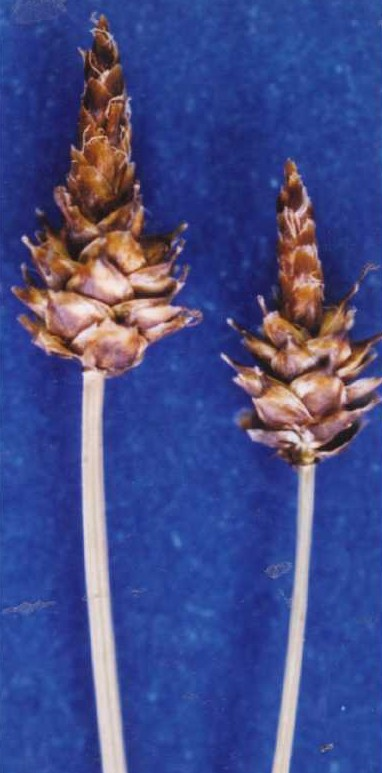 inflorescences of Carex capitata from Hurd, E.G., N.L. Shaw, J. Mastrogiuseppe, L.C. Smithman, and S. Goodrich. 1998. Field guide to Intermountain sedges. General Technical Report RMS-GTR-10. USDA Forest Service, RMRS, Ogden. Courtesy of USDA FS RMRS Boise Aquatic Sciences Lab.